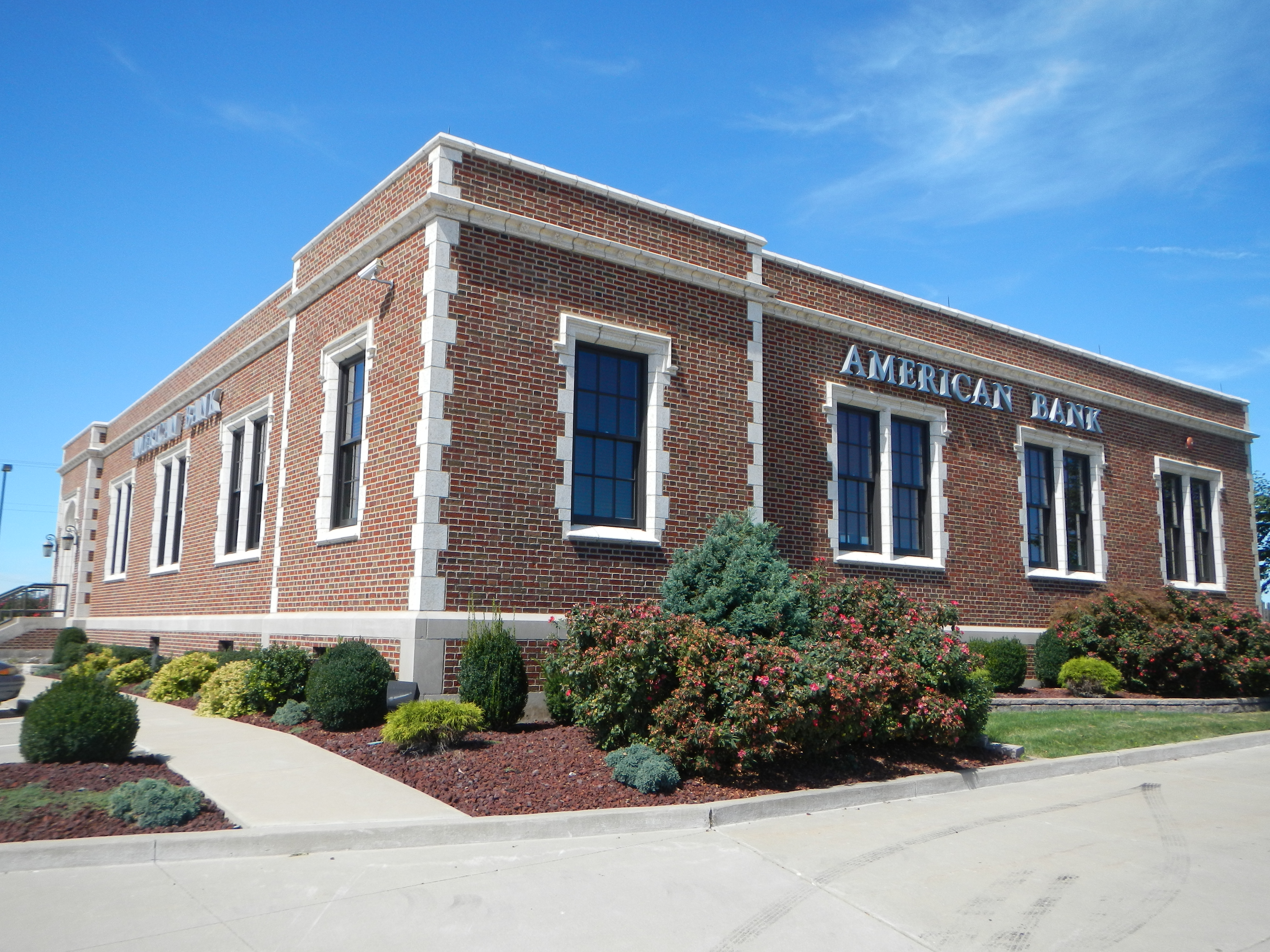 Southwestern Bell Repeater Station-Wright City, Northeastern corner of the junction of North Service Rd. and Bell Rd. Wright City